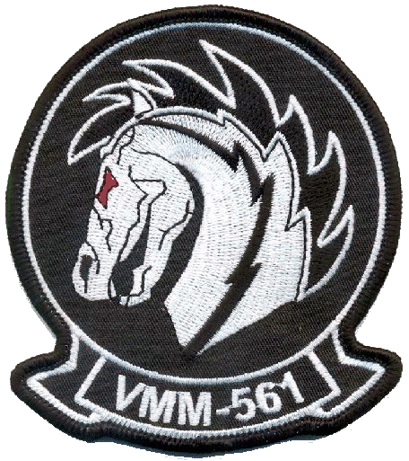 unit logo for VMM-561